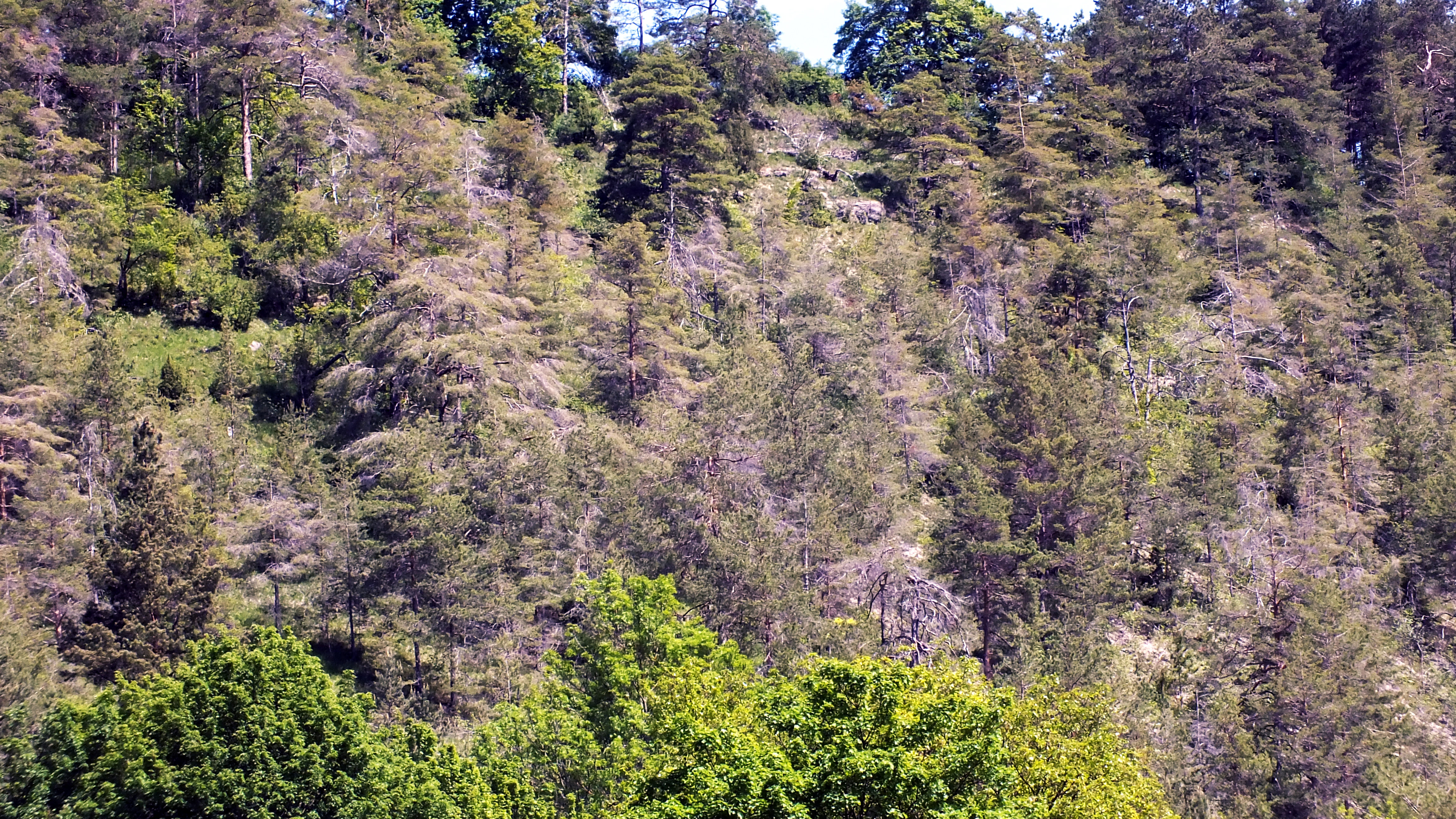 View to nature reserve area "Weißenberg", located in Thuringen, Germany, in the County of Weimar, near the village Wittersroda